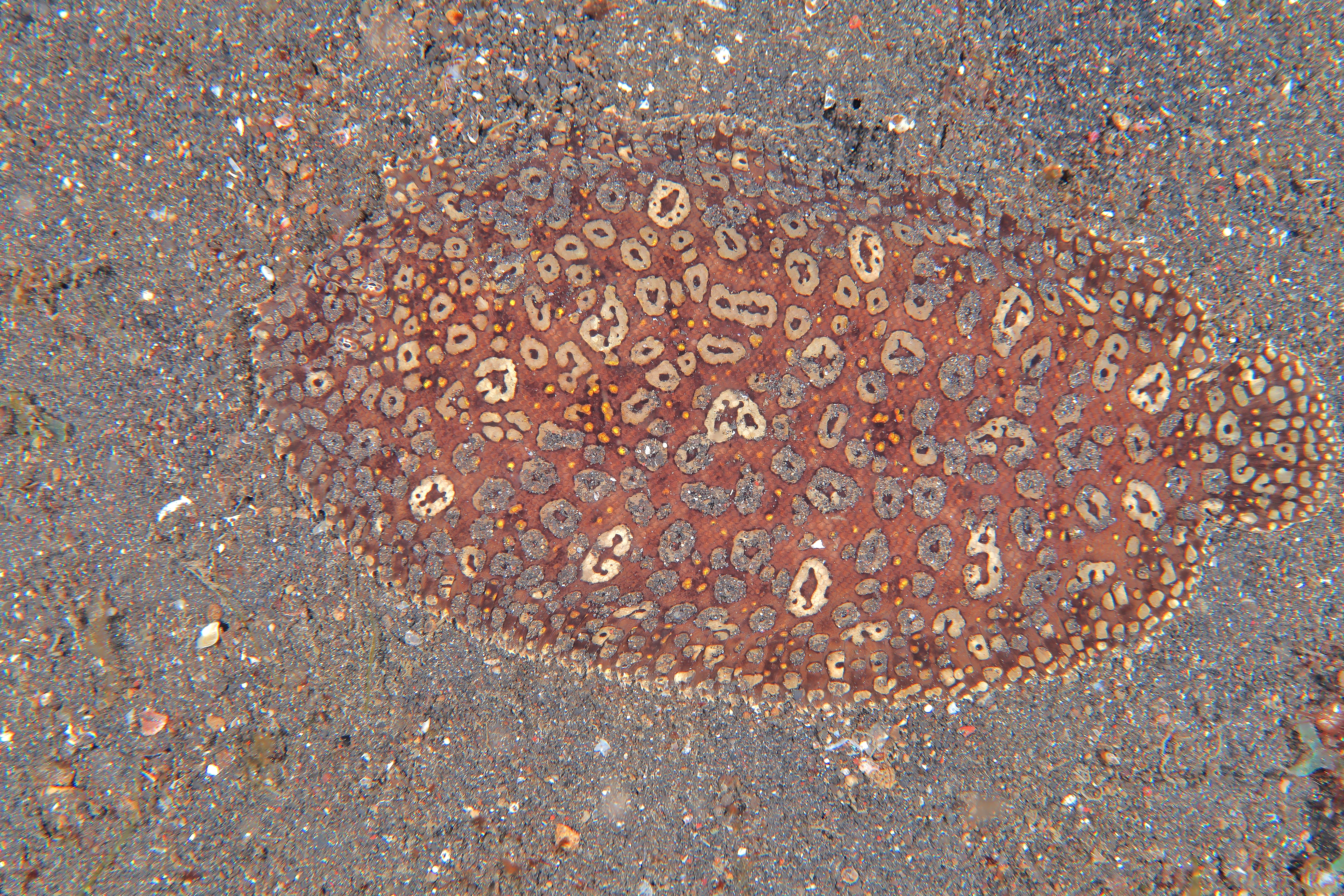 Peacock sole